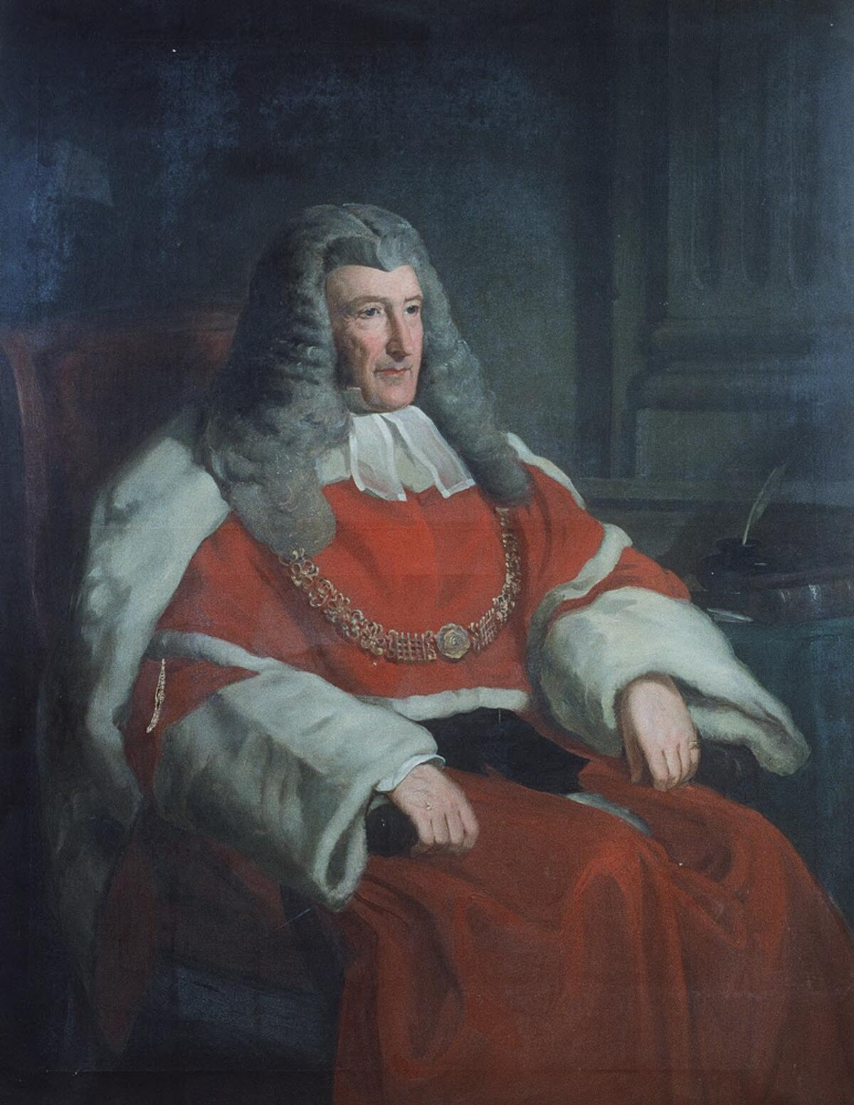 A painting from the Framed Works of Art collection at the National Library of wales.